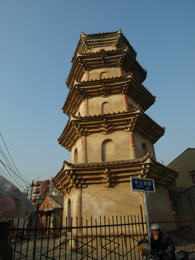 The "White Pagoda" across the street from Shuixin Zen Temple in Anhai Town, Fujian, near the eastern end of the Anping Bridge